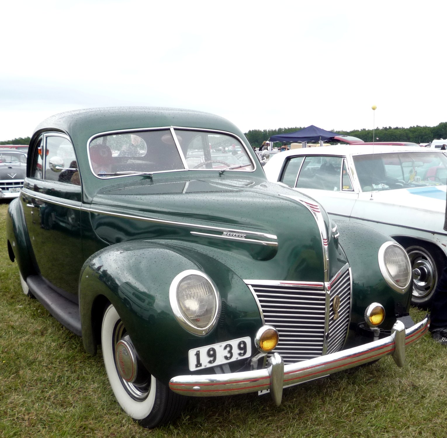 Green 1939 Mercury 8 Sedan-Coupe